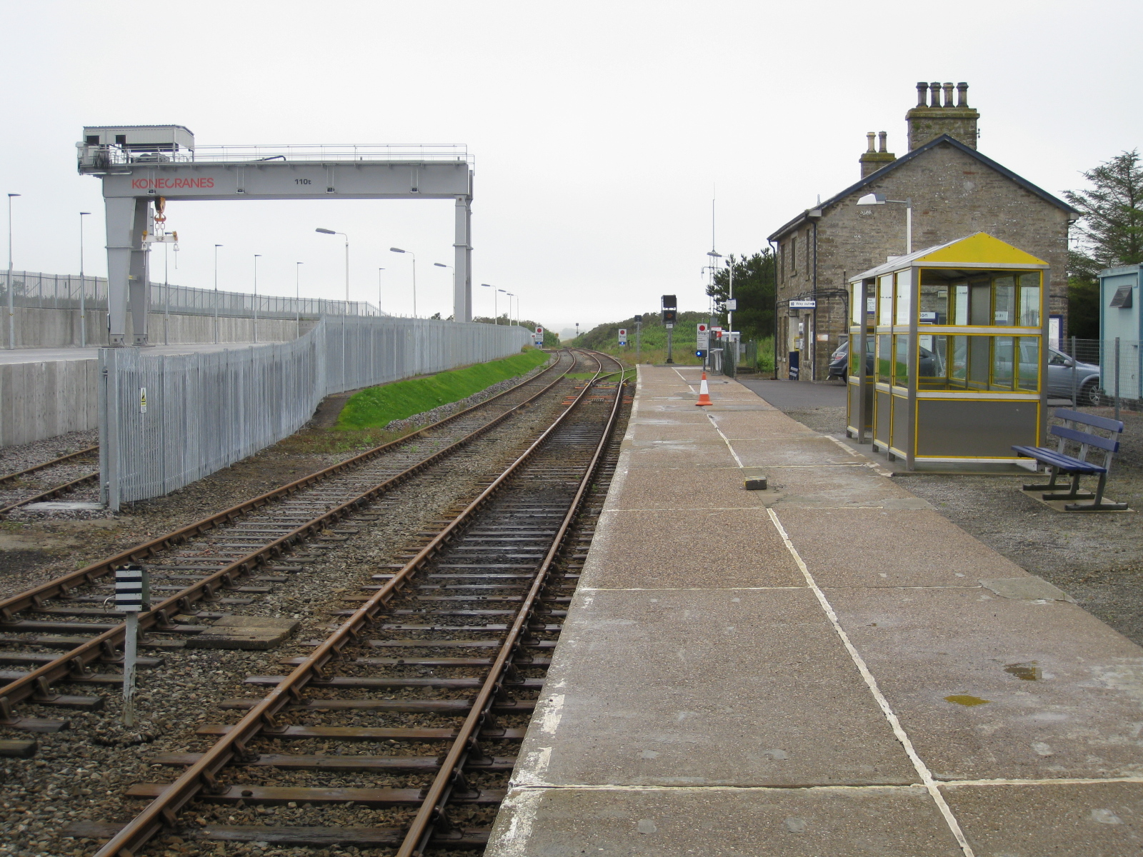 A view of Georgemas Junction railway station, taken on 2 August 2012.